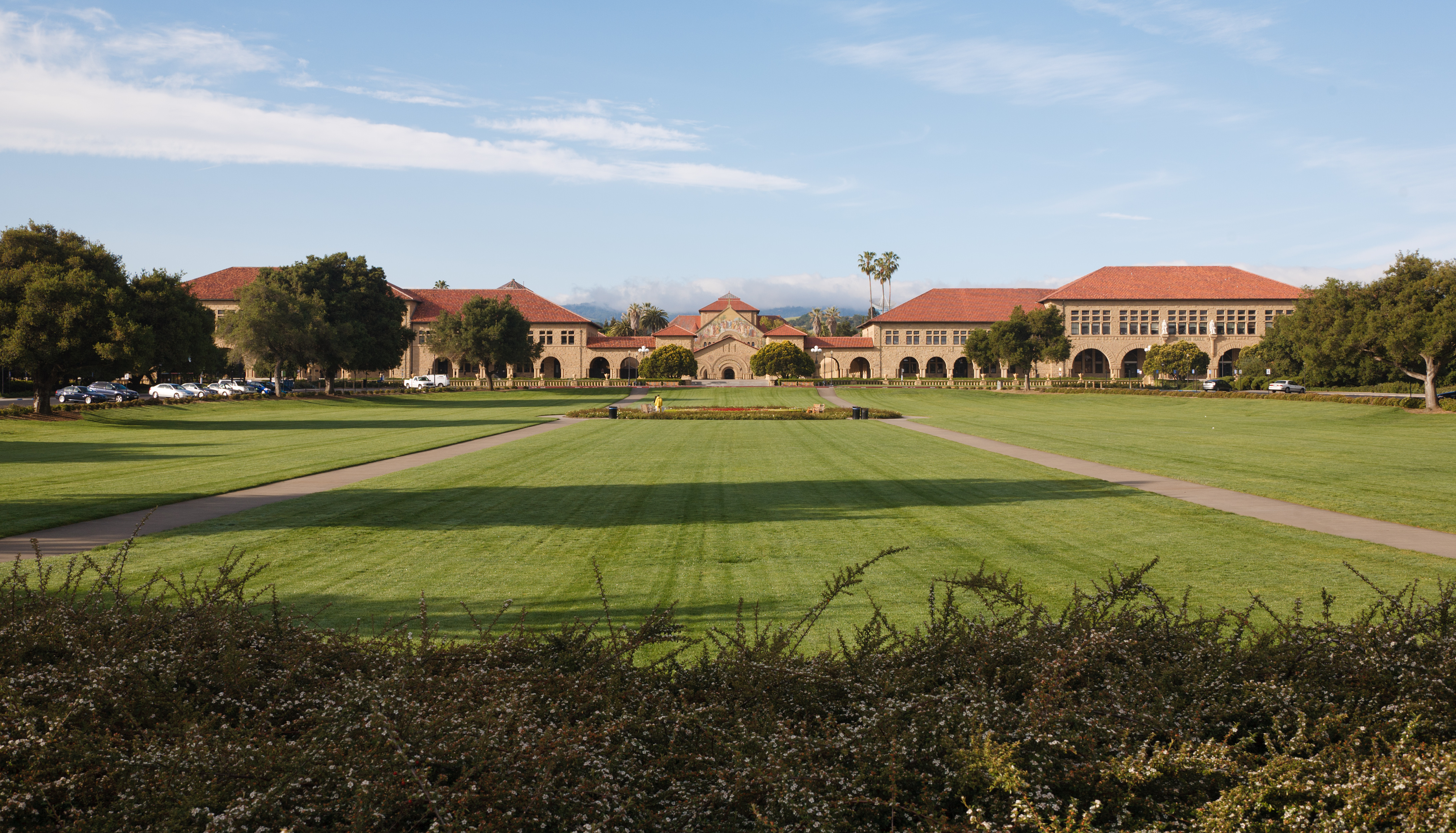 The Oval, Stanford University, Stanford, California.